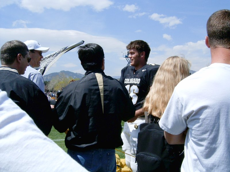 CU Kicker Mason Crosby signing autographs at CU's 2005 Spring Game